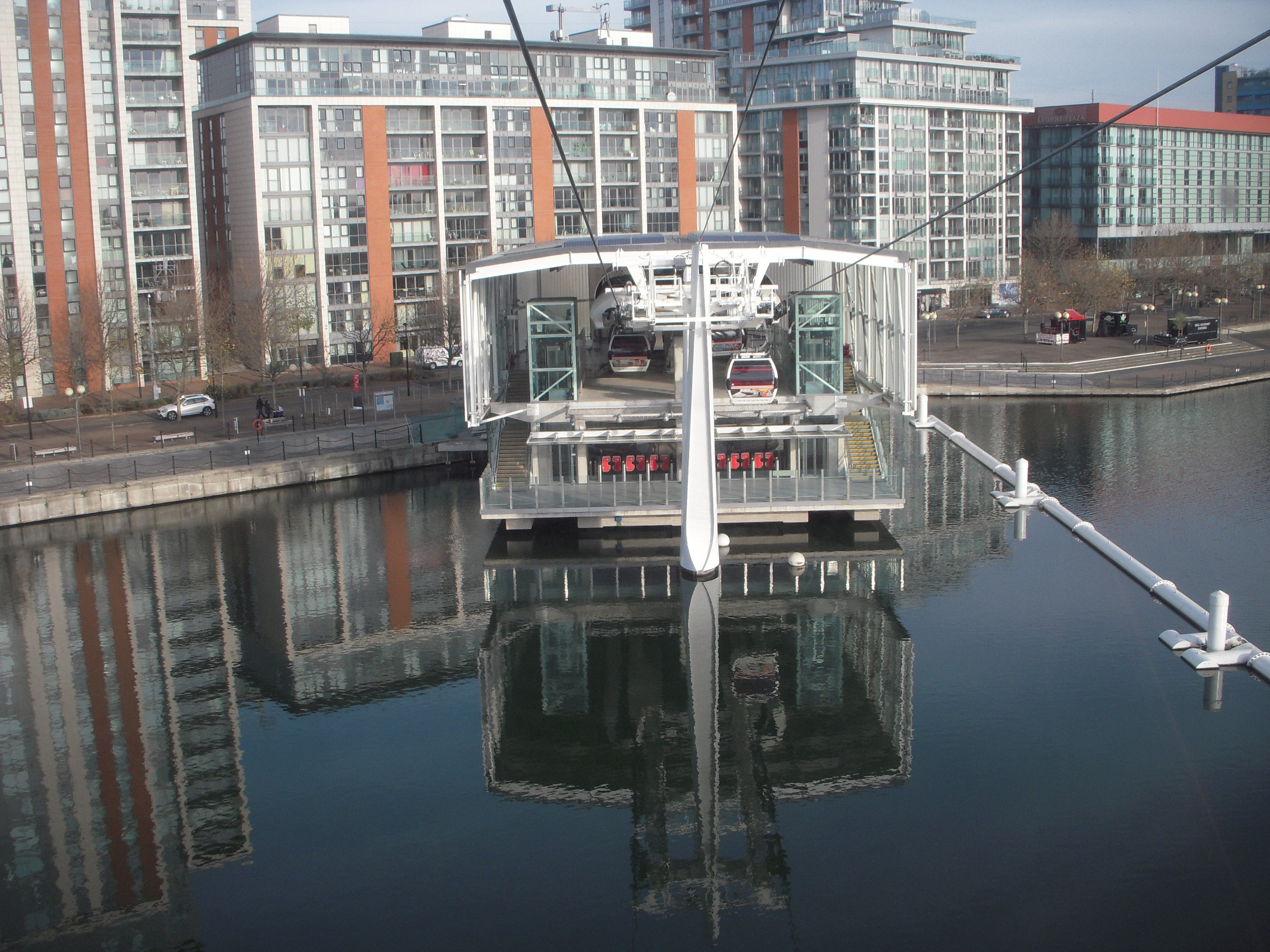 The northern station of the Emirates Air Line cableway in London